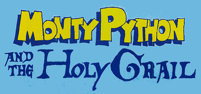 Official logo of the movie Monty Python and the Holy Grail